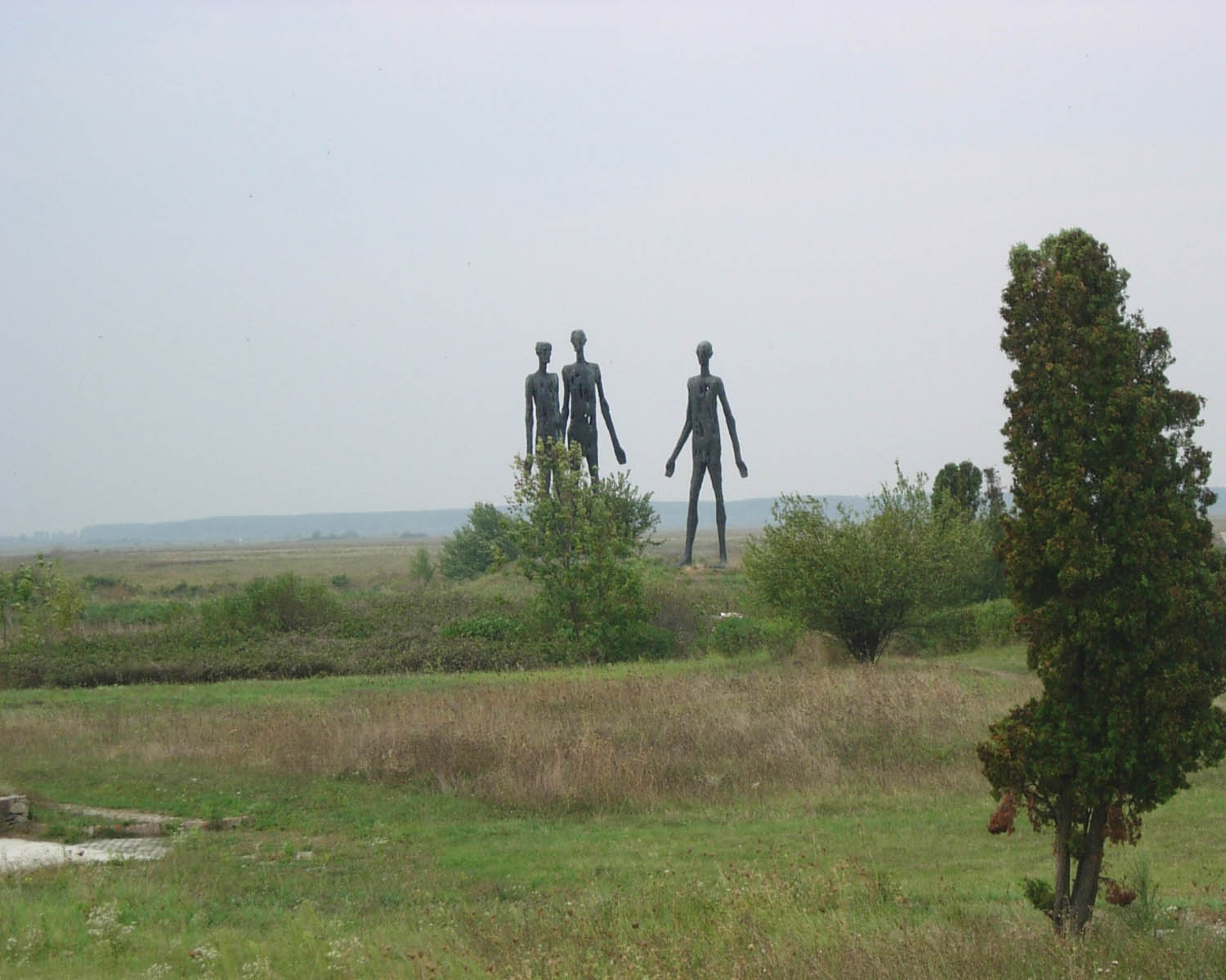 Monument of the 1942 raid victims near Žabalj.